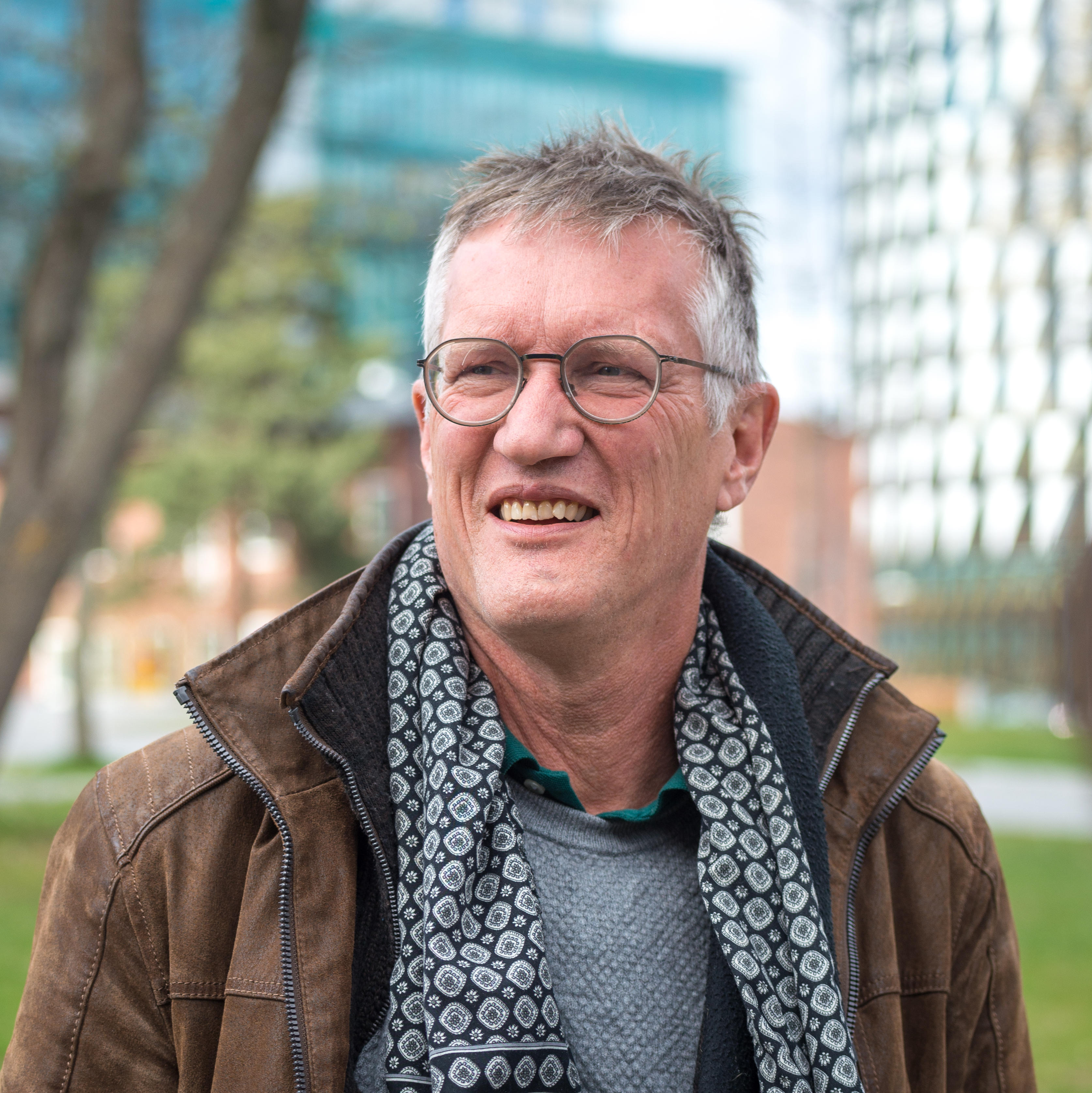 Anders Tegnell during the daily press conference outside the Karolinska Institute in Stockholm, Sweden.